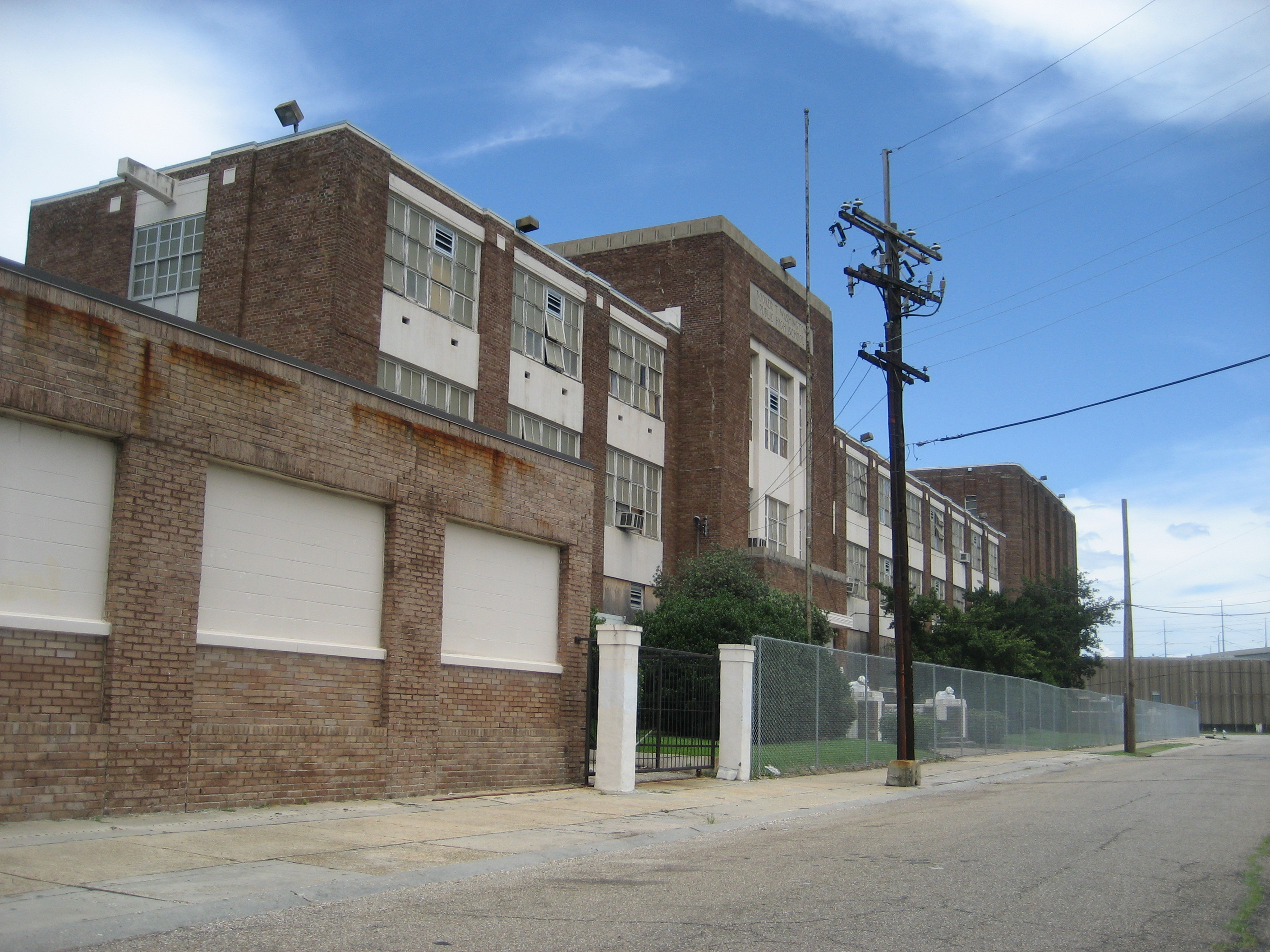 New Orleans: Booker T. Washington School, vacant since Hurricane Katrina in 2005